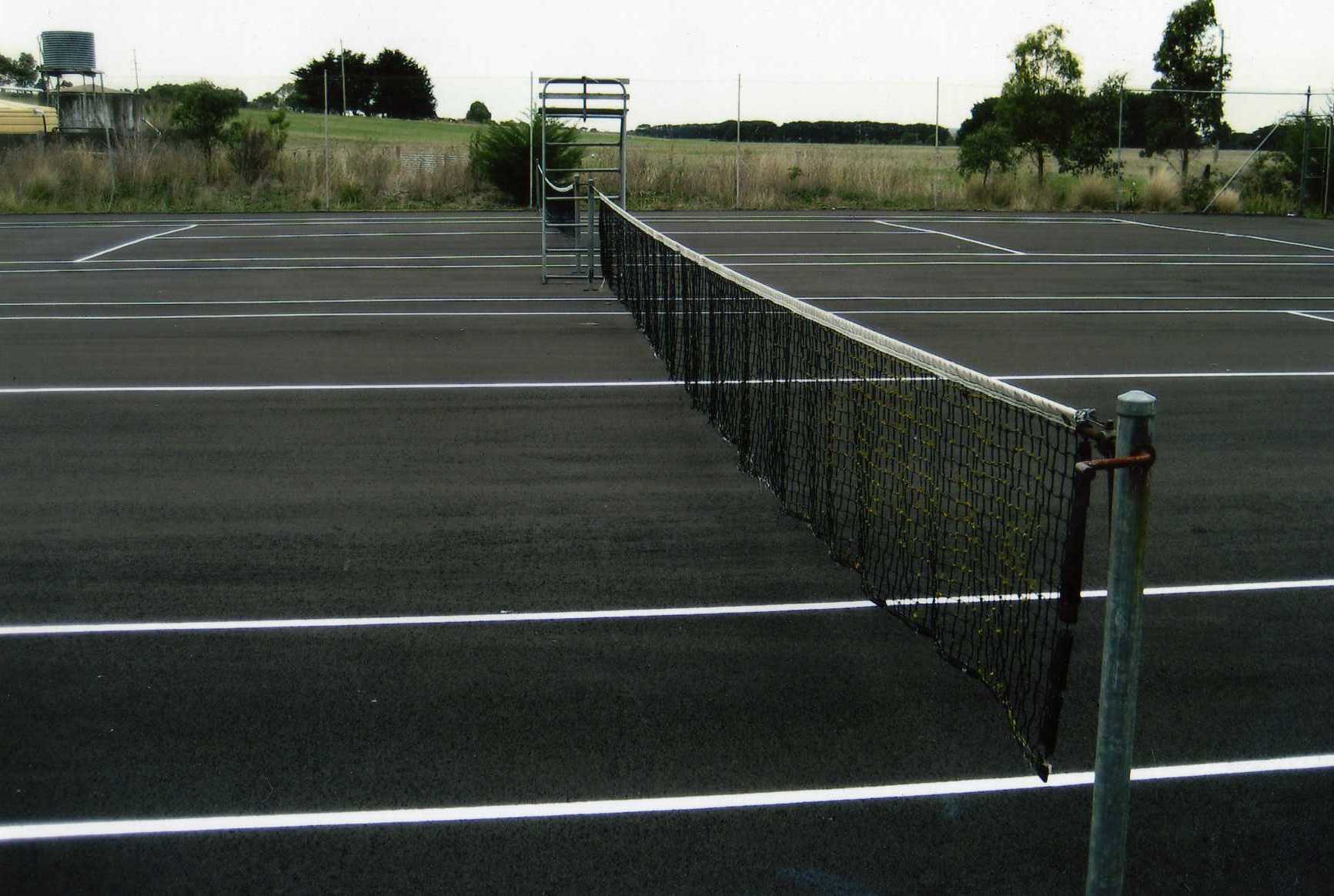 view from main street april 2012